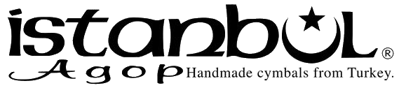 Logo of Istanbul Agop, a cymbal manufacturer of Turkey.